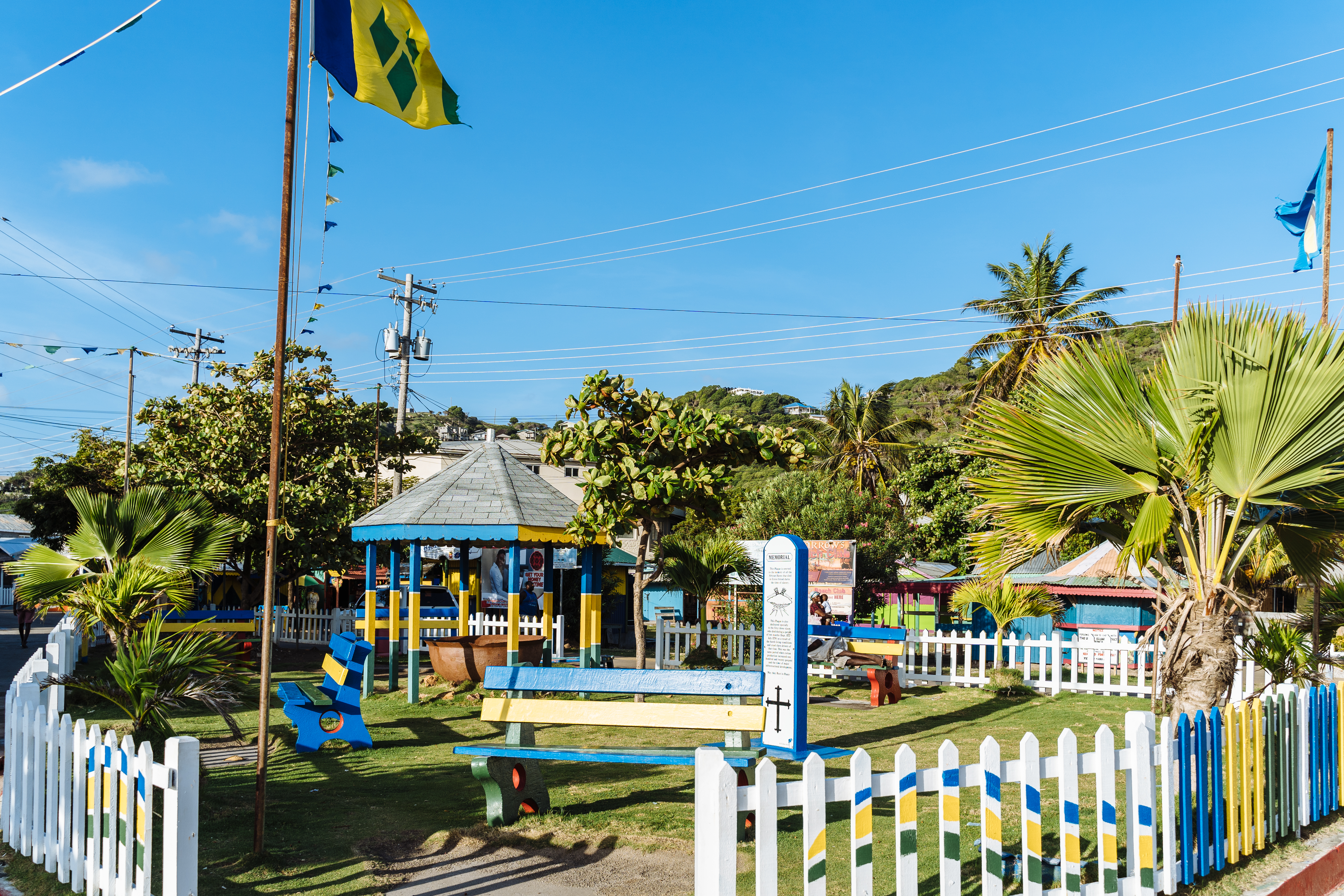 Inscription of the memorial plaque: Memorial This plaque is erected to the memory of all the African Slaves that dies in Union Island during the time of slavery. This plaque is also dedicated specially to the fifty three slaves who died during a period of ten months (Sept. 1777- July 1778) as a result of the harsh living conditions and cruel slave drivers of that time. This was the same period when cotton production increased one hundred and twenty percent and the time of major infrastructural development. May they rest in peace.